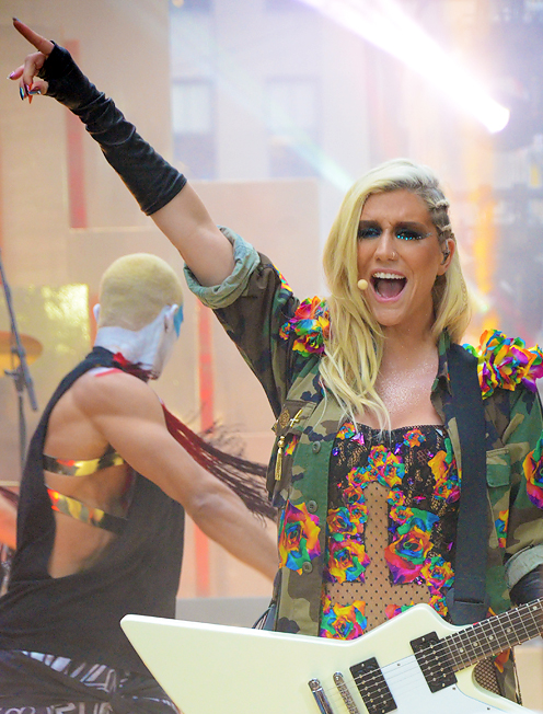 Kesha at The Today Show in New York, NY on November 20, 2012